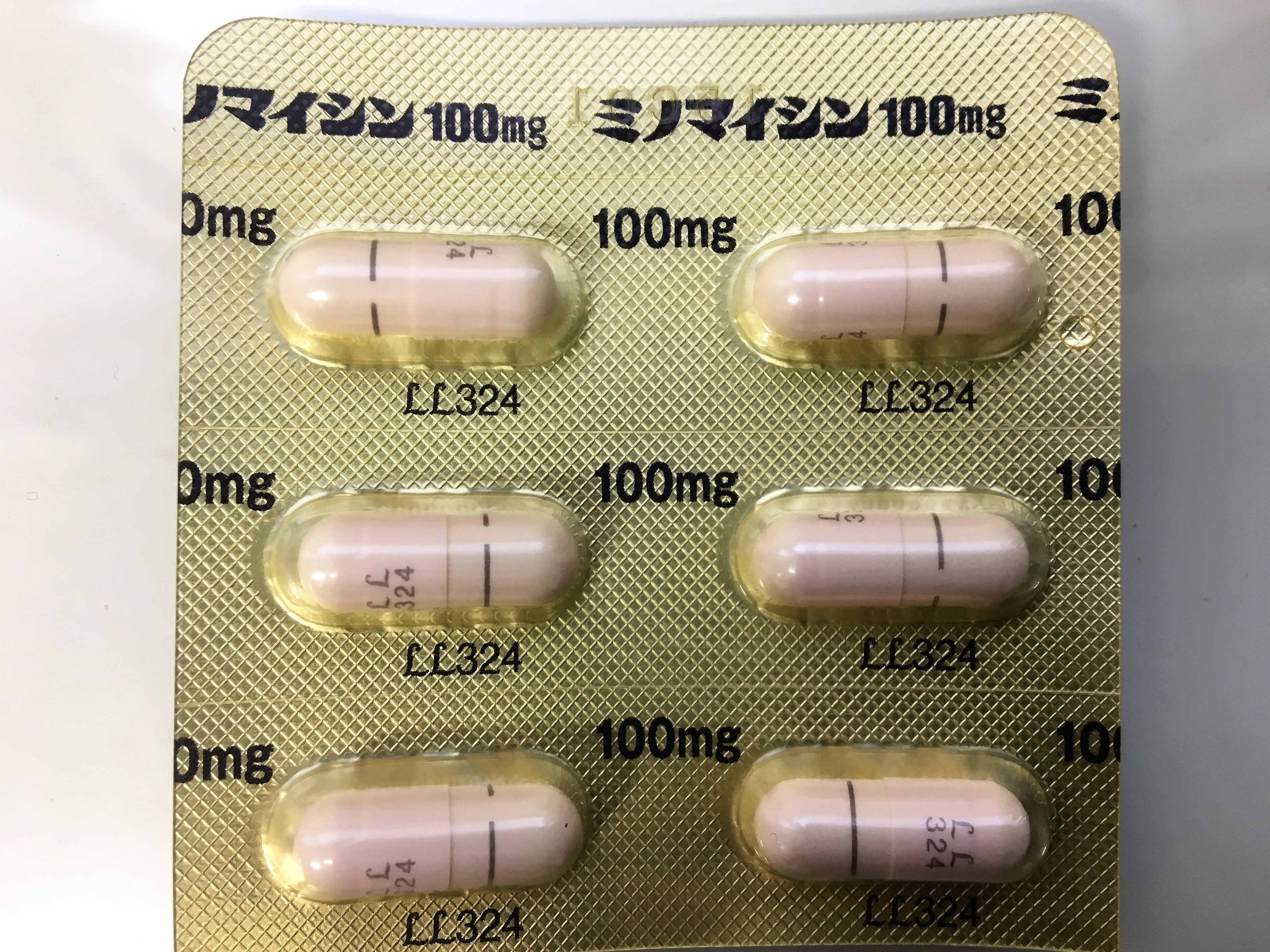 Minocycline-cap 2016 JAPAN